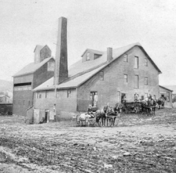 "John Canon's Mill. The Law and Finance Building is now on the site. A water powered grist and saw mill was erected here about 1780 by John Canon. He was county sub-lieutenant of militia during the Revolution and served in the state assembly. The wooden building was demolished in 1942 after the milling company stopped making flour."